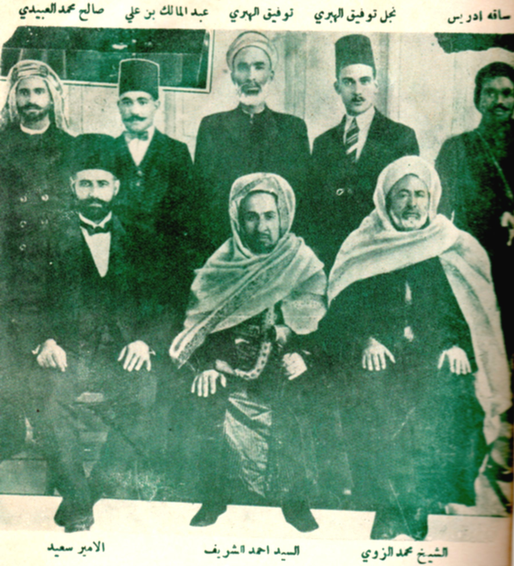 Abdelmalik Benali with Sayyed Ahmad Sharif El-Sanussi prior to departure from Syria to Saudi Arabia